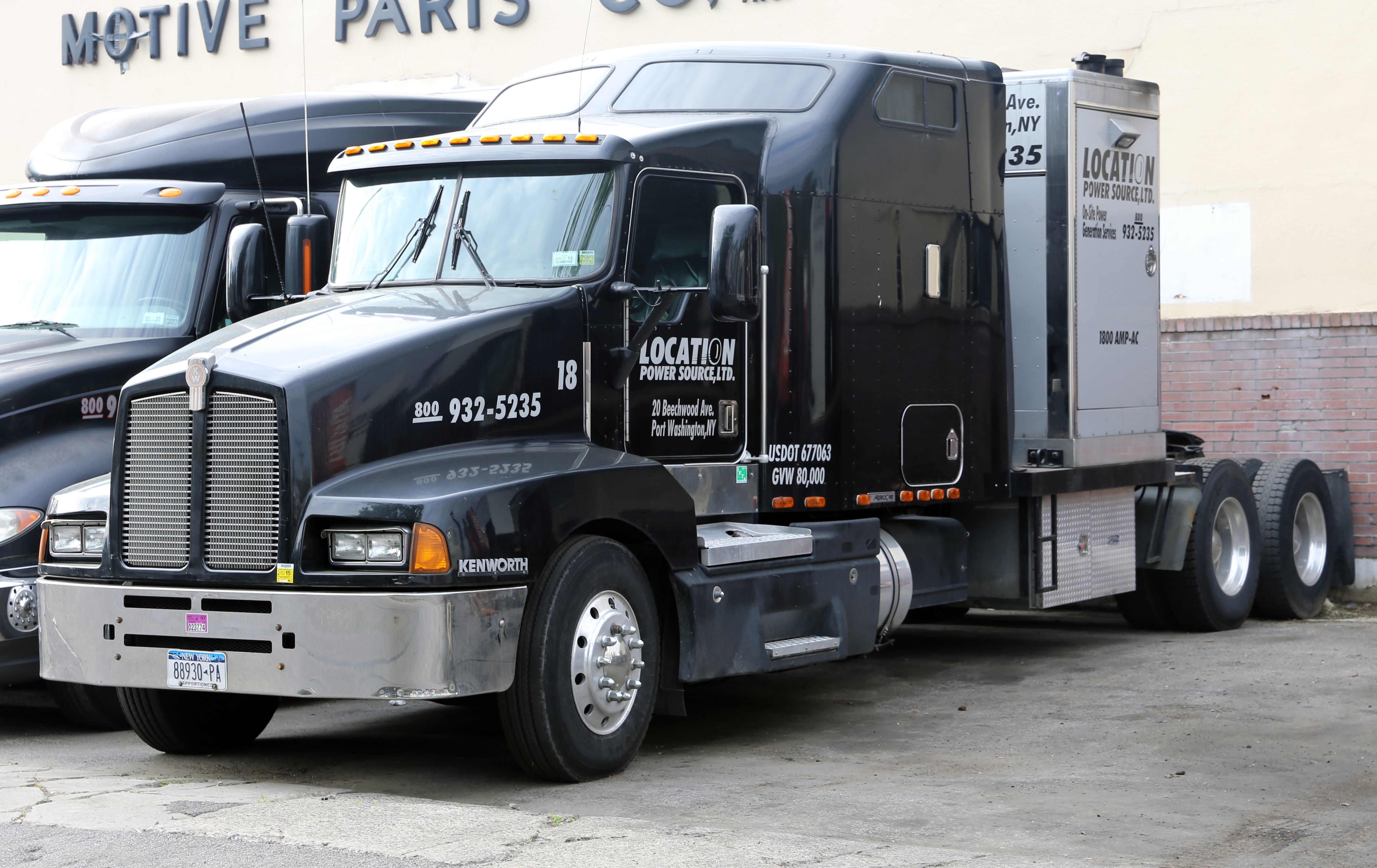 A 1995 Kenworth T600B 6x4 Class 8 tractor with a Cummins N14 (14.0 litres, 855 CID). Built in Renton, WA. This is an early T600B with integrated front fenders (they were made detachable in 1997) and with the integrated Aerocab sleeper cab.